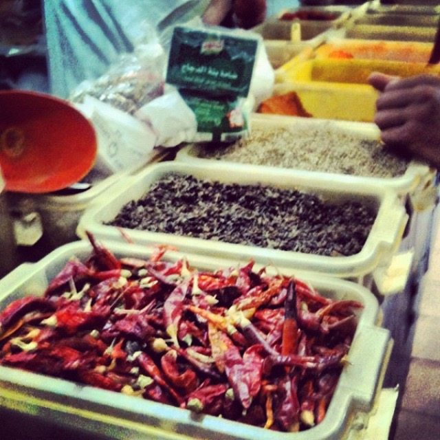 Spices in Ceuta market place